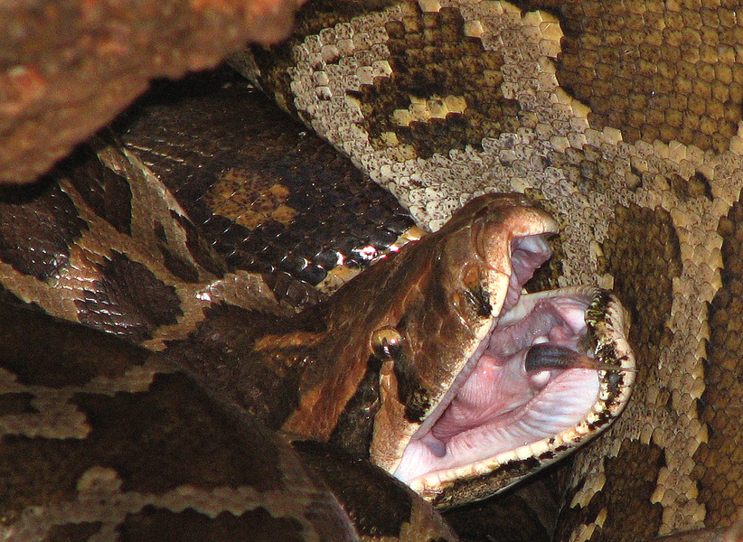 Burmese python (Python molurus bivittatus)